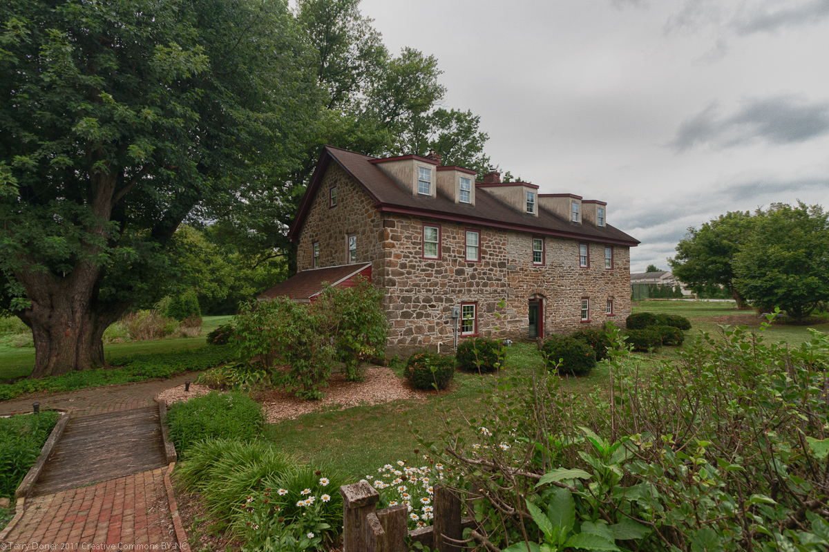 The Michael Dohner Farmhouse in East Lampeter Township, Lancaster County, Pennsylvania. Image taken looking to the south west.